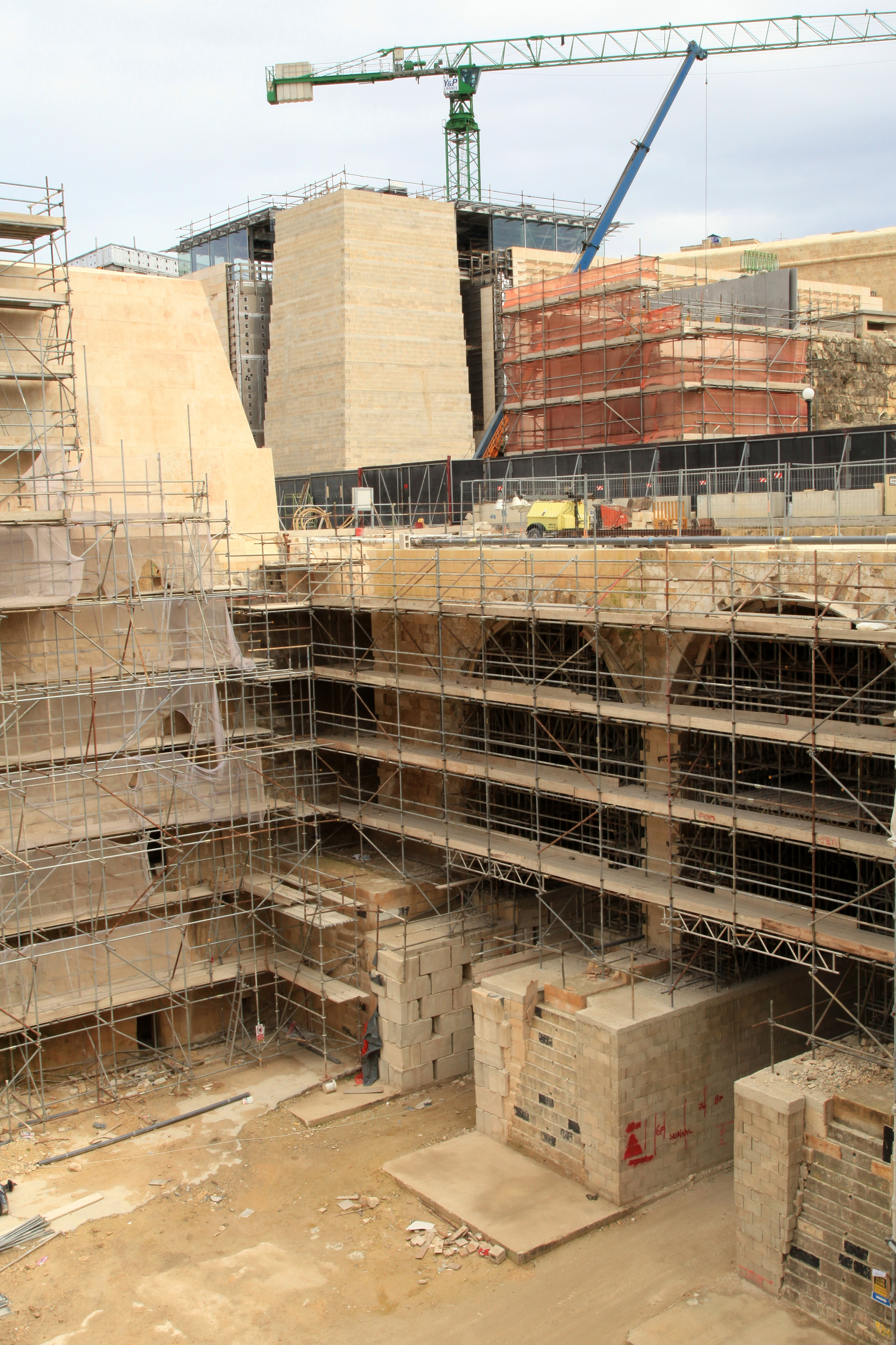 New Parliament Building, Triq ir-Repubblika in Valletta, Malta